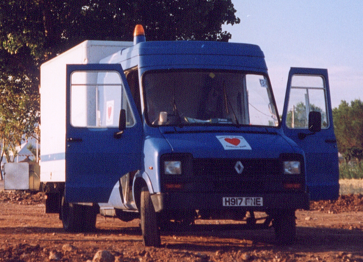 Renault 50 Series light truck, commonly known as "Dodge 50 series"; this model with crew cab and box body built in Great Britain 1990, by (parent company) Renault Vehicules Industriels of France in a factory formerly of the Rootes group. Photograph taken by the owner and this uploader, Kieran Turner, Wikipedia User:kierant, outside Almyros, Greece, 1999. Also available via